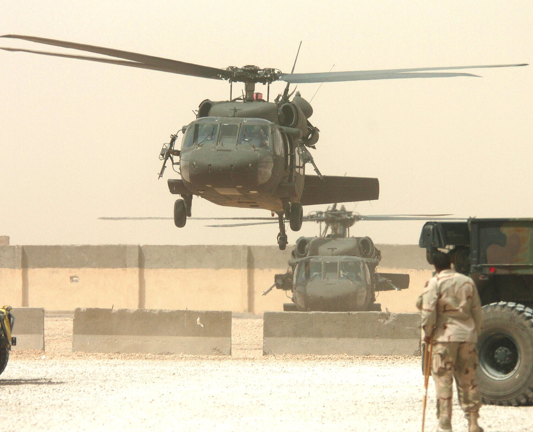 UH-60 Blackhawk helicopters take off after delivering supplies and Soldiers to the 155th Brigade Combat Team in Forward Operating Base Hotel, near Najaf, Iraq.